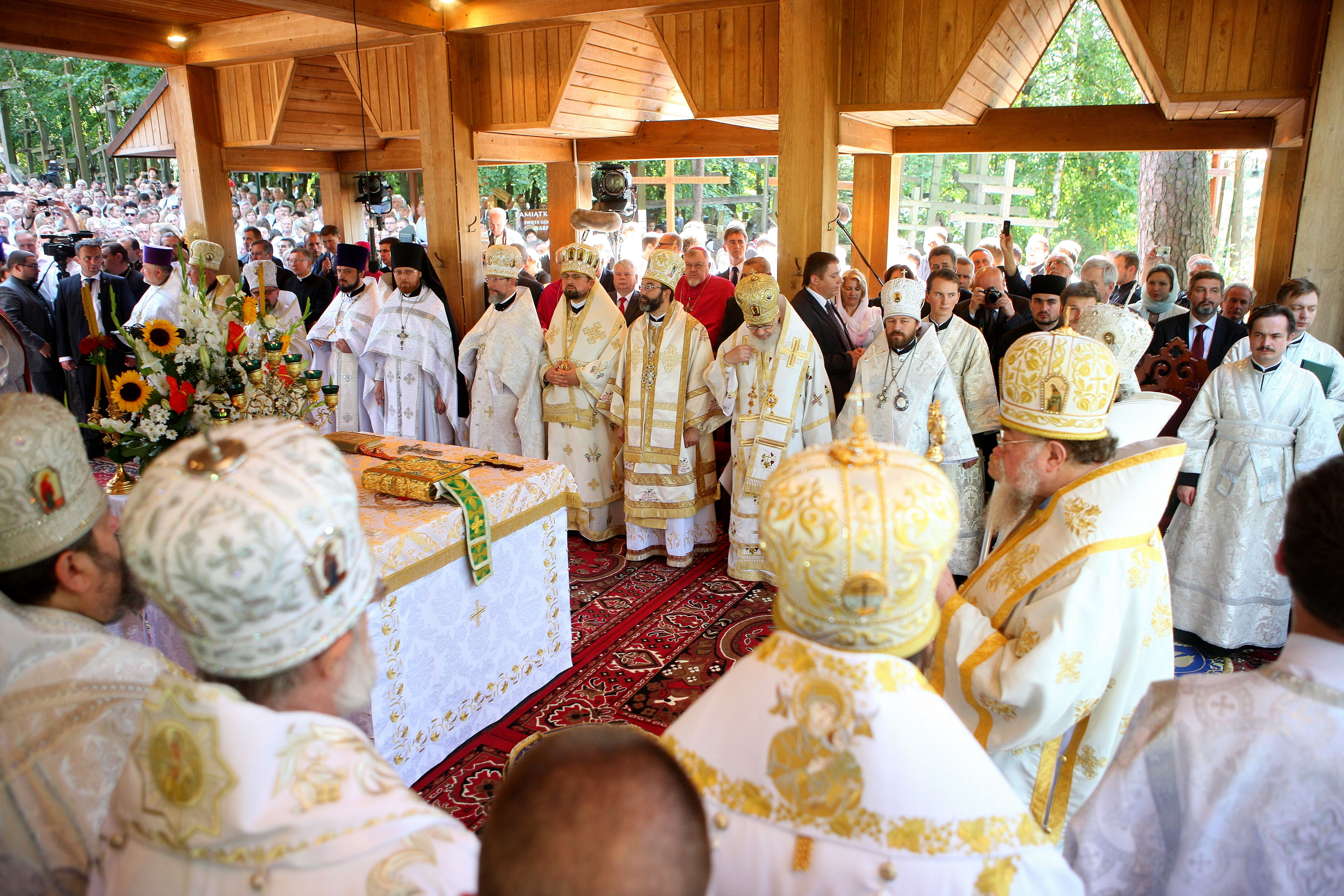 Transfiguration of Jesus service on the Holy Mountain of Grabarka with the participation of Patriarch Kirill I of Moscow and all Russia